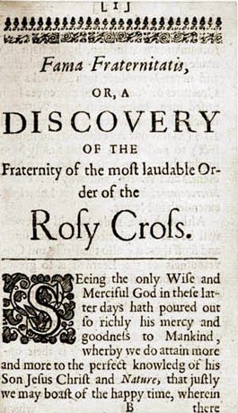 An early English translation of Fama Fraternitatis